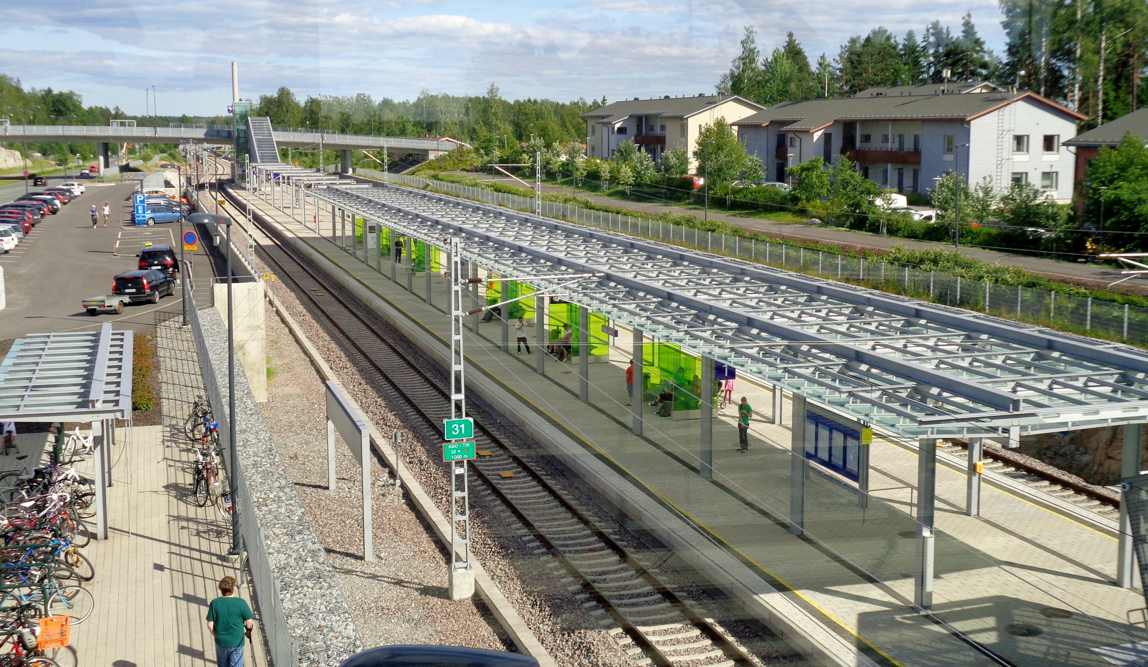 Leinelä railway station on its opening day.